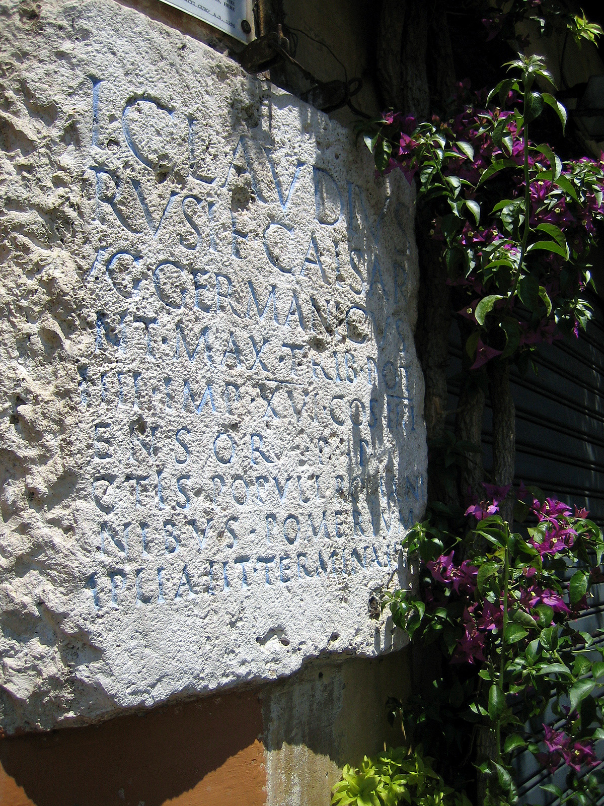 Pomerium marker of the emperor Claudius